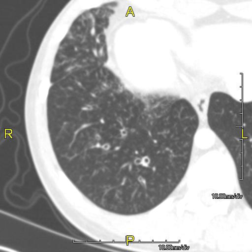 CT scan of the lower chest in an individual with Primary Ciliary Dyskinesia showing mild bronchial will thickening and dilataion of the bronchus (bronchiectasis).